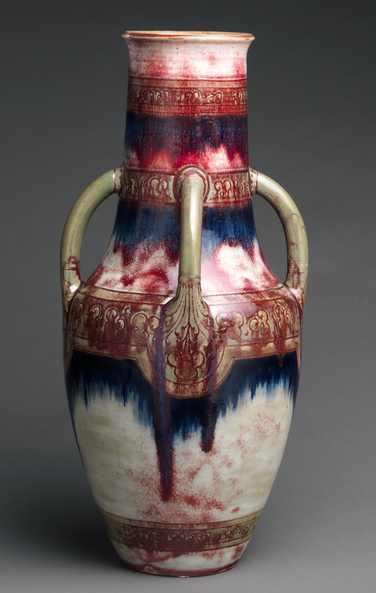 French, Paris; Vase; Ceramics-Pottery